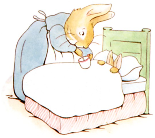 Illustration from children's book The Tale of Peter Rabbit